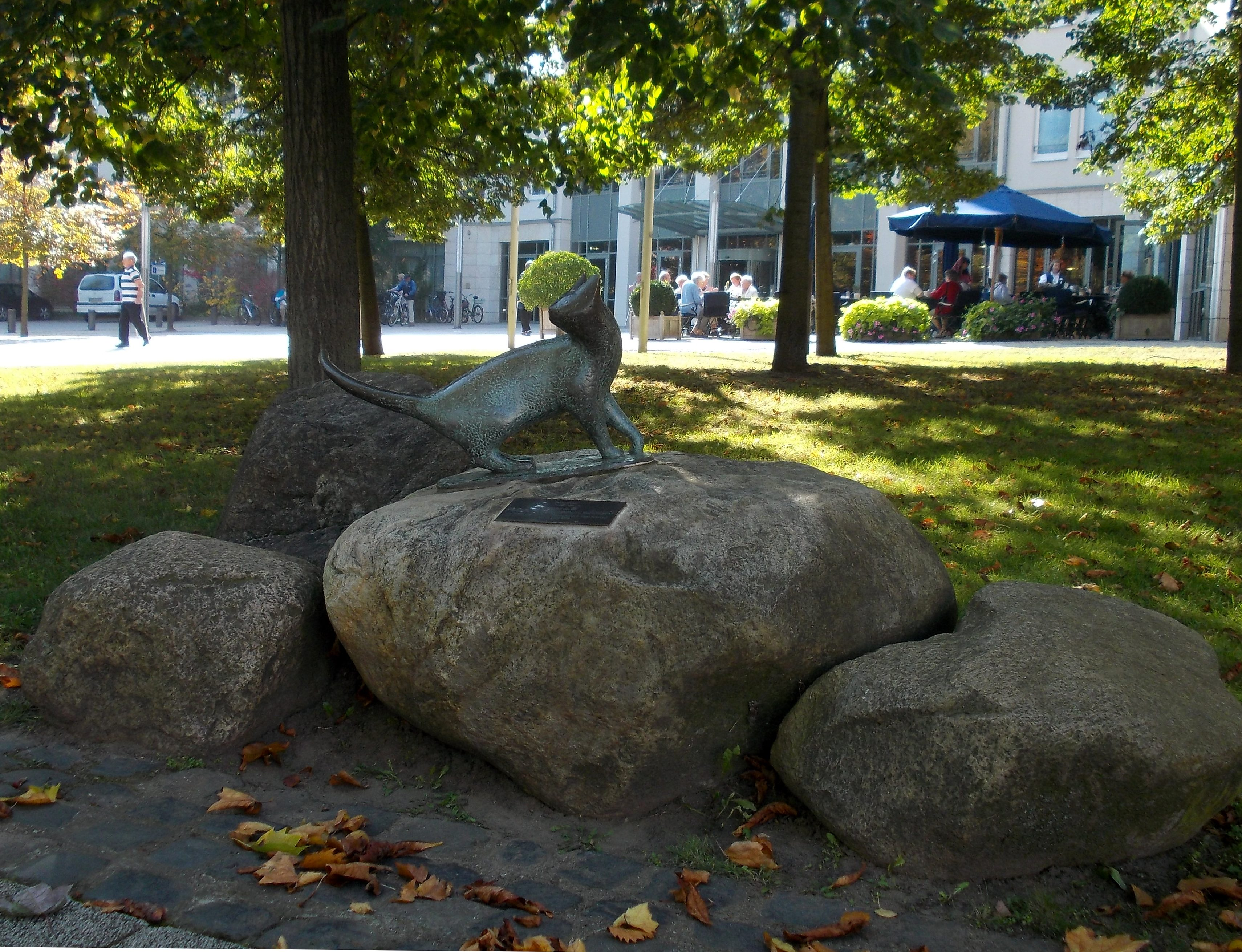 Cat by Bruno Kubas in the spa gardens of Bad Schmiedeberg (Wittenberg district, Saxony-Anhalt)